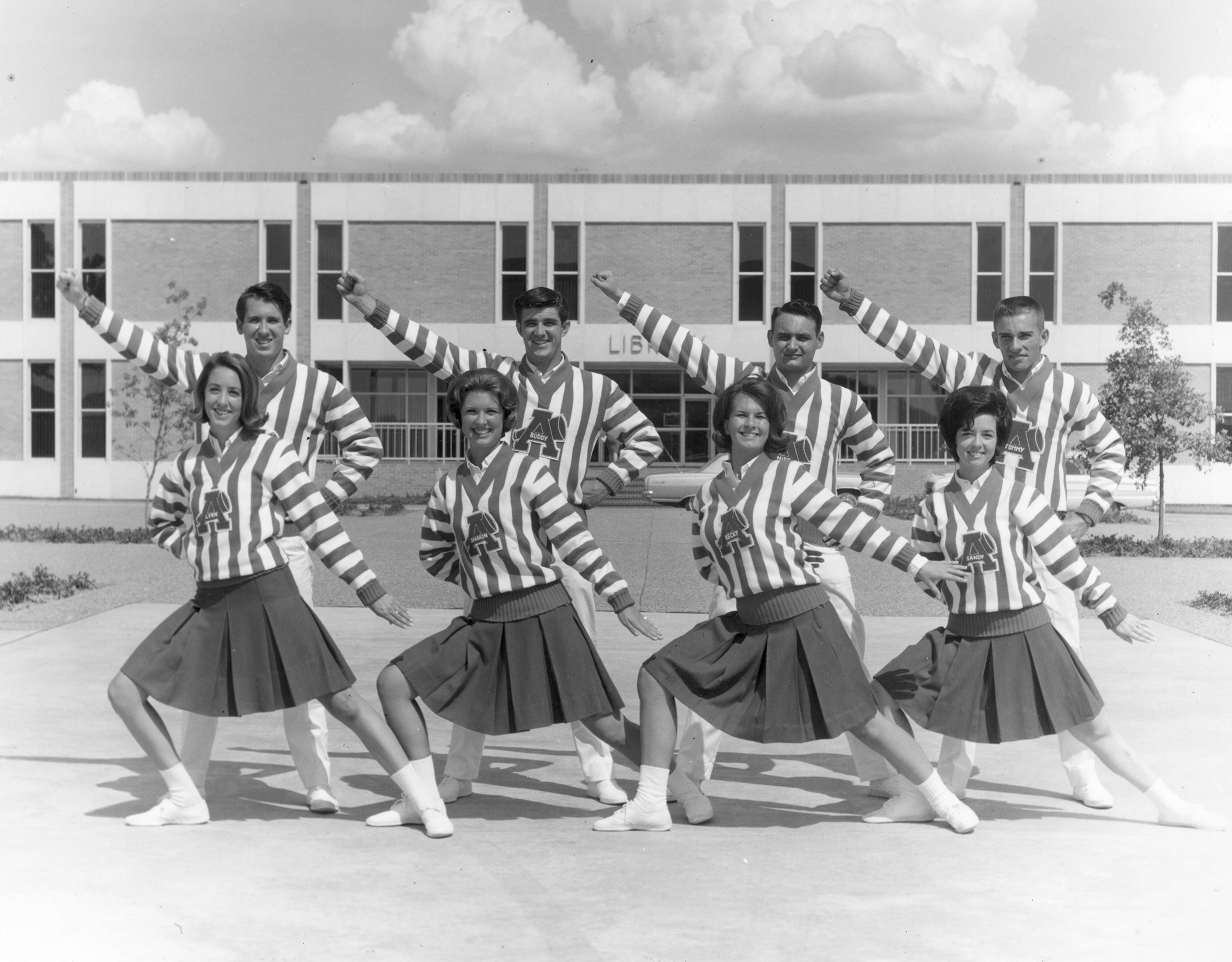 Cheerleaders posed in front of new Library, Arlington State College; from left, Lynn Petrelli, unidentified male, Sharon Terrill, Buddy Lear, Becky Cowley, Mike Langdon, Sandy Barnes, and unidentified male. The Cheerleaders are wearing a stripped top, with a capital letter A, with a solid color skirt.